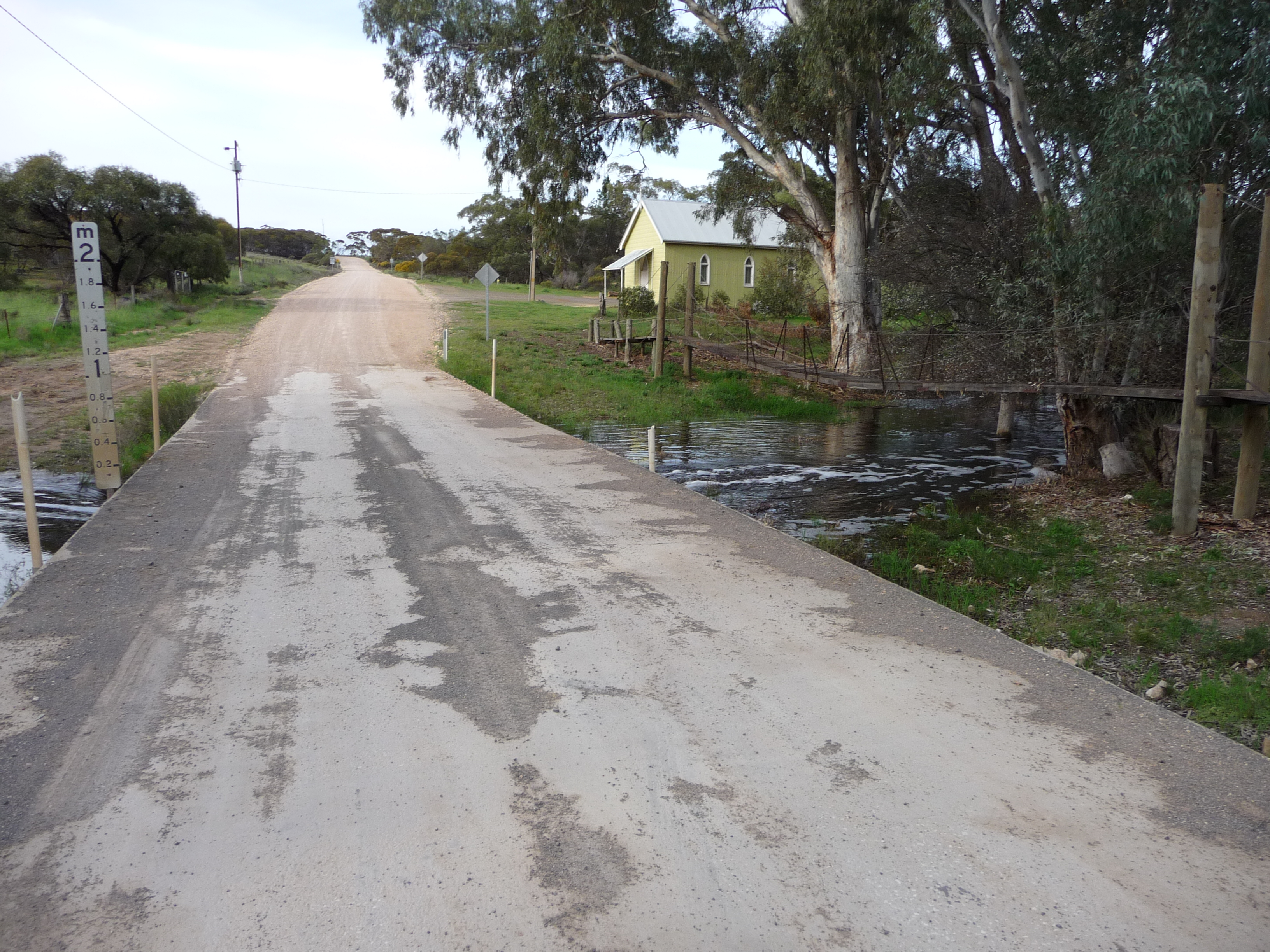 Swinging bridge and ford over the River Marne with the Black Hill hall in the background